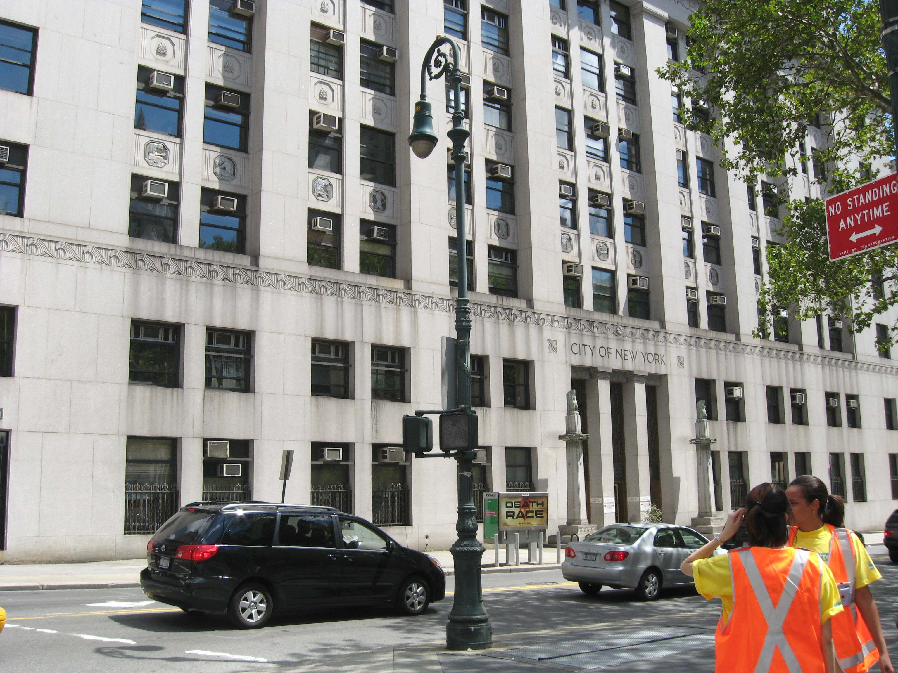 Looking northeast and up at 125 Worth Street, HQ of New York City Health and Hospitals Corporation and Dept of Health on a sunny late morning